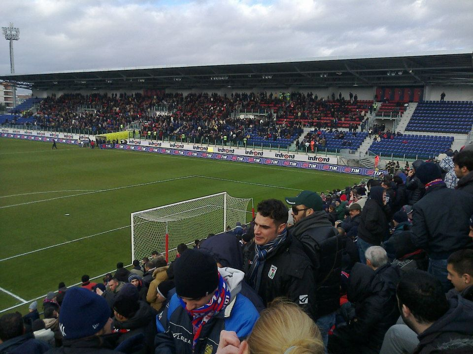 Cagliari VS Milan 10/02/2013